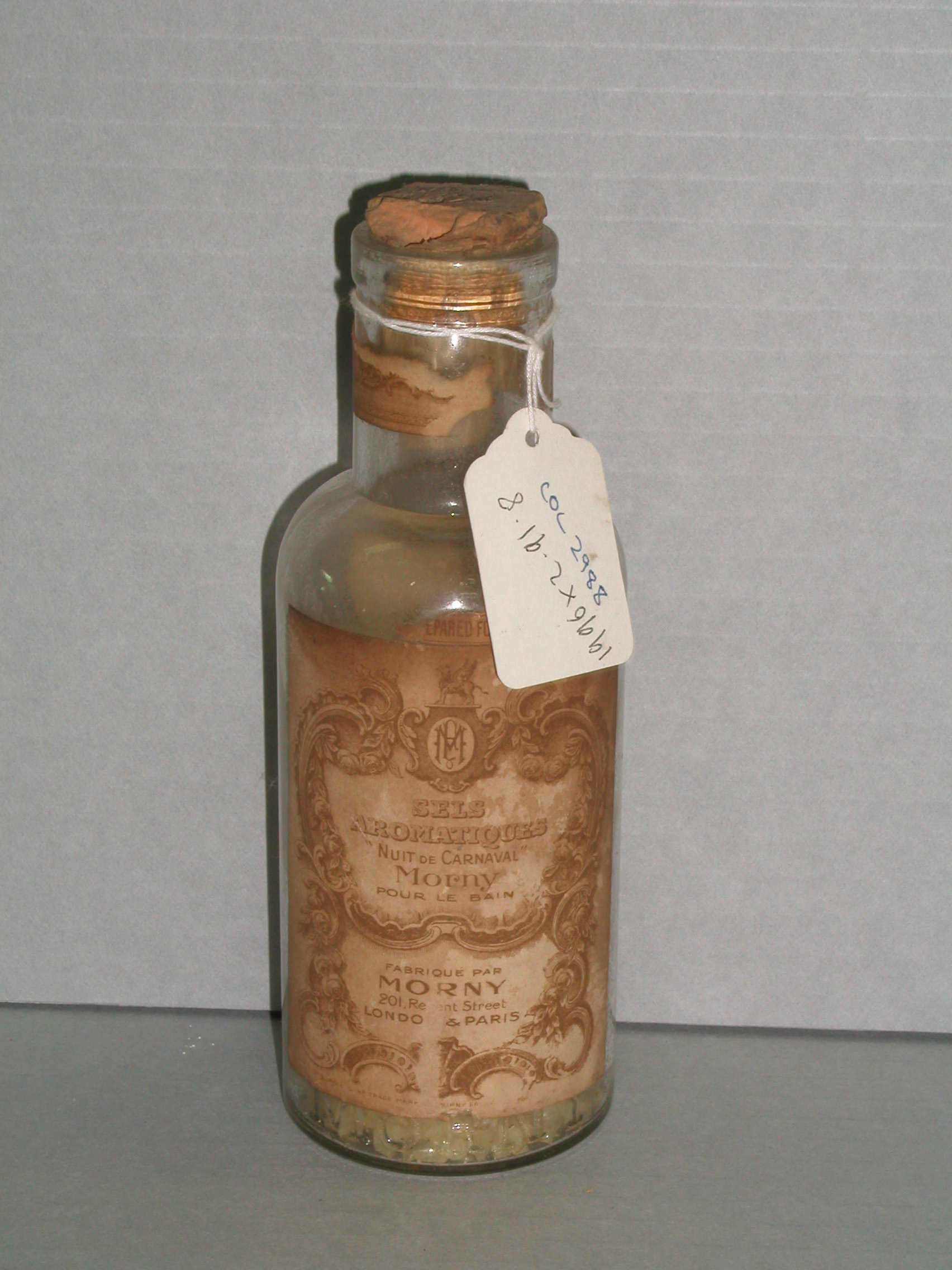 "bottle of bath salts by "Morny", locality .England." (col.card)